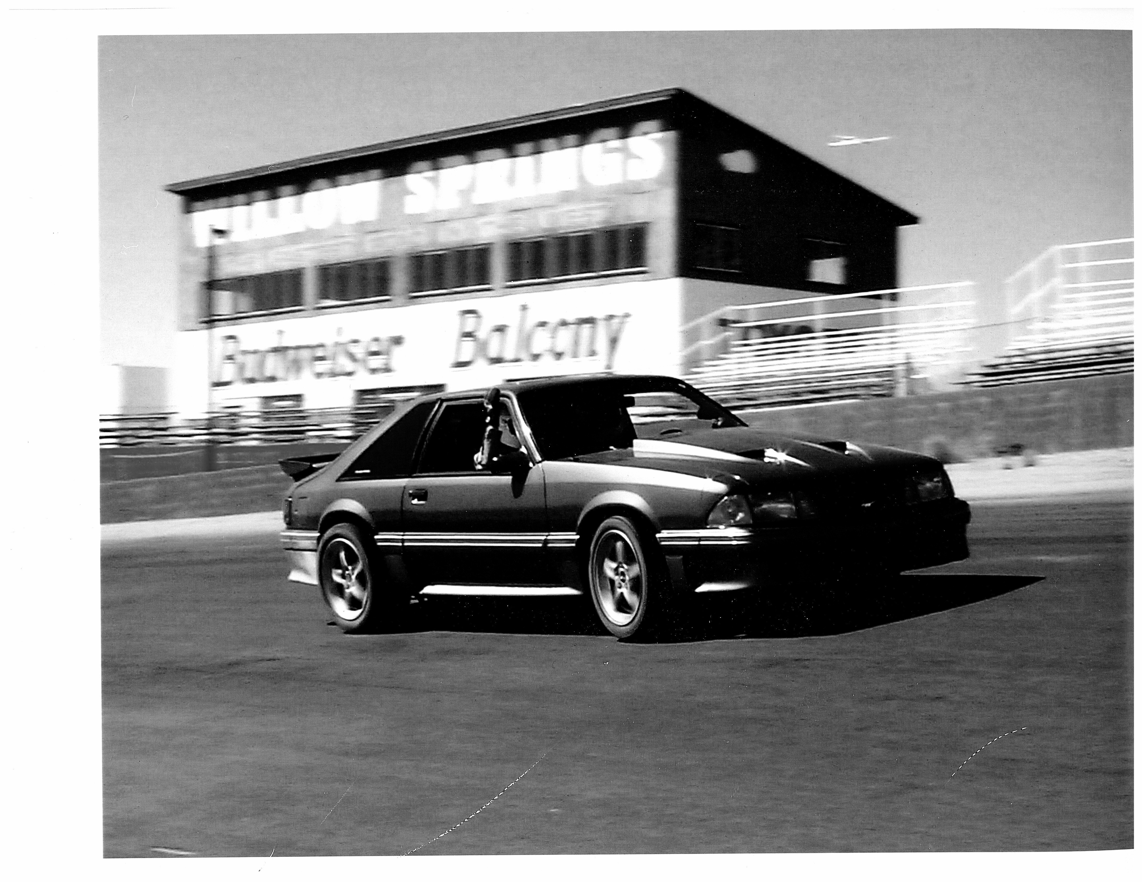 Willow Springs Raceway - Big Track - Turn 4 - Open track day in Mustang